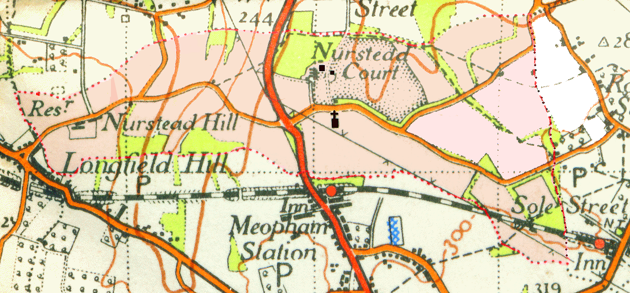 Extract of New Popular Edition 1 inch to 1 mile series, West Kent map, publ. 1940, but surveyed earlier, showing Nurstead. Parish boundary and area emphasised after scan.